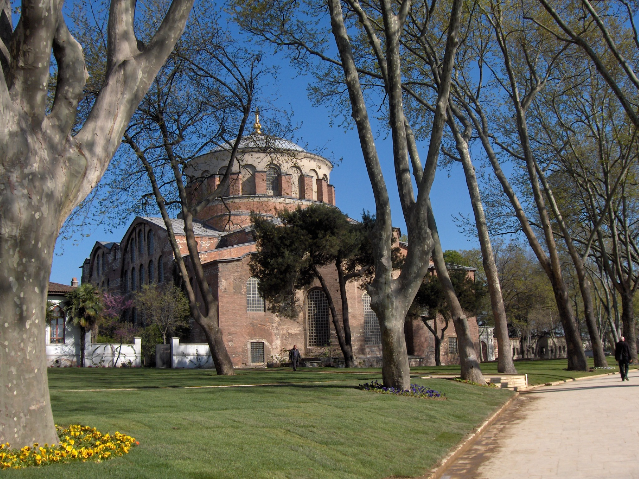 Hagia Eirene, one of the earliest churches of Byzantium (now Istanbul), now lokated inside the Topkapi palace